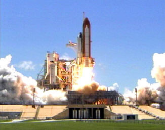 Launch of the Space Shuttle Discovery.